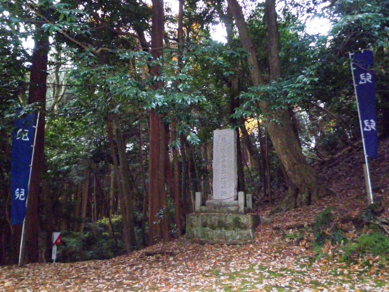 Site of Ukita Hideie's position in the Battle of Sekigahara.